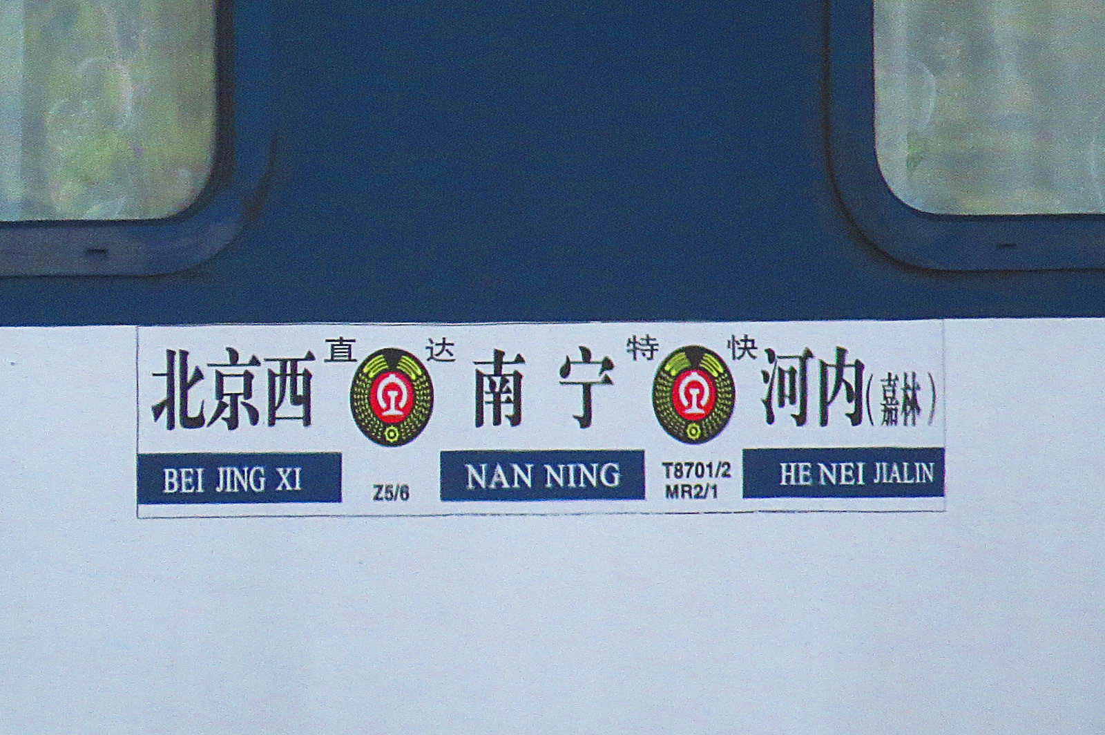 Taken when the carriages were being sent back to depot. This "Beijing West-Nanning-Hanoi (Gia Lâm)" train board is only available on carriage No.9, where passengers with Beijing-Hanoi direct ticket are allocated to.Vahcuengh: Baekging - Namzningz - Hanoi